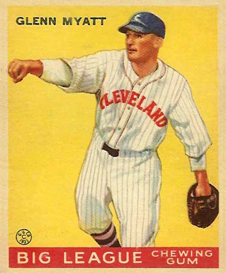 1933 Goudey Baseball Card of Glenn Myatt of the Cleveland Indians #10. PD-not-renewed.